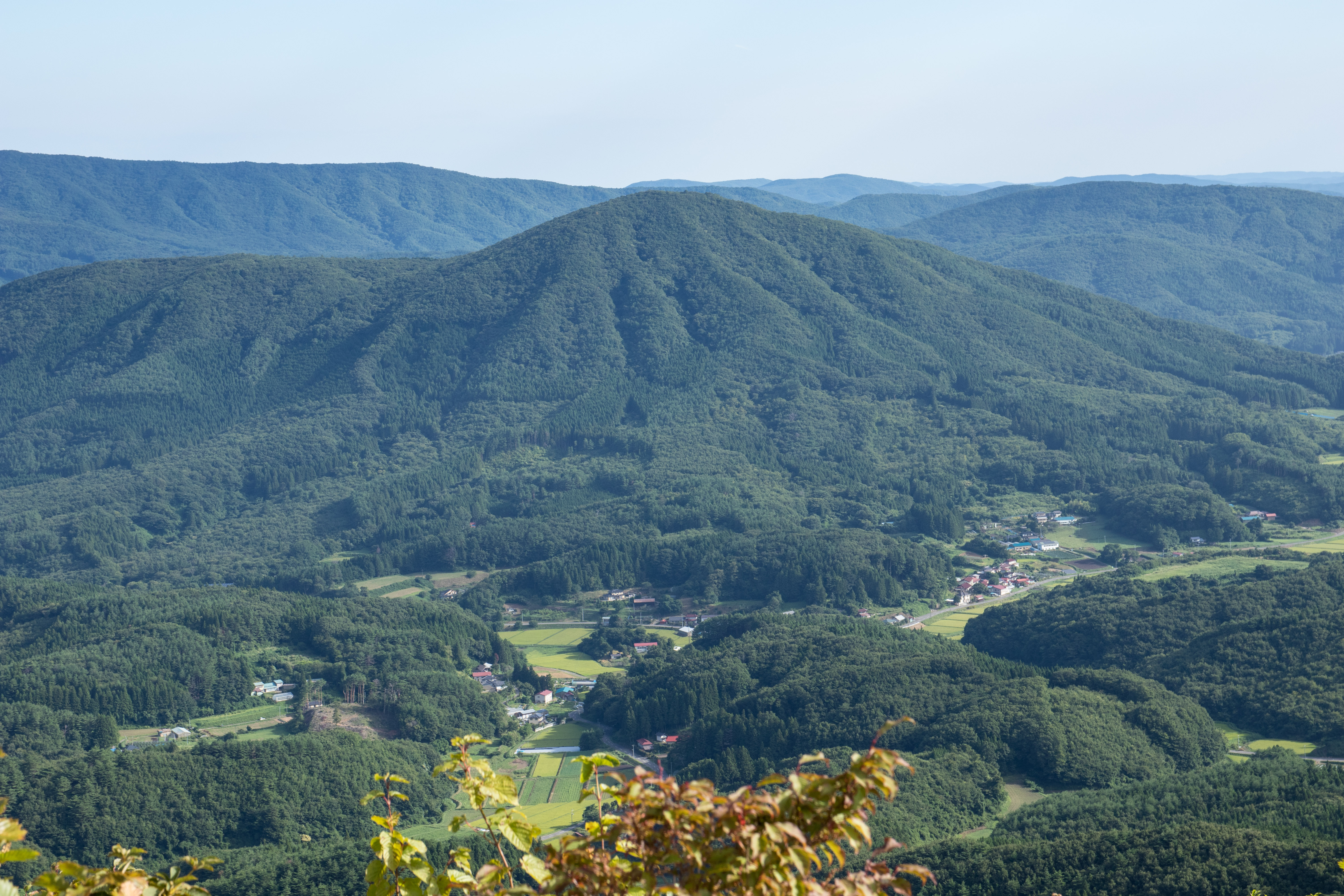 Mount Tatsugo, Abukuma Mountains, Fukushima Pref., Japan